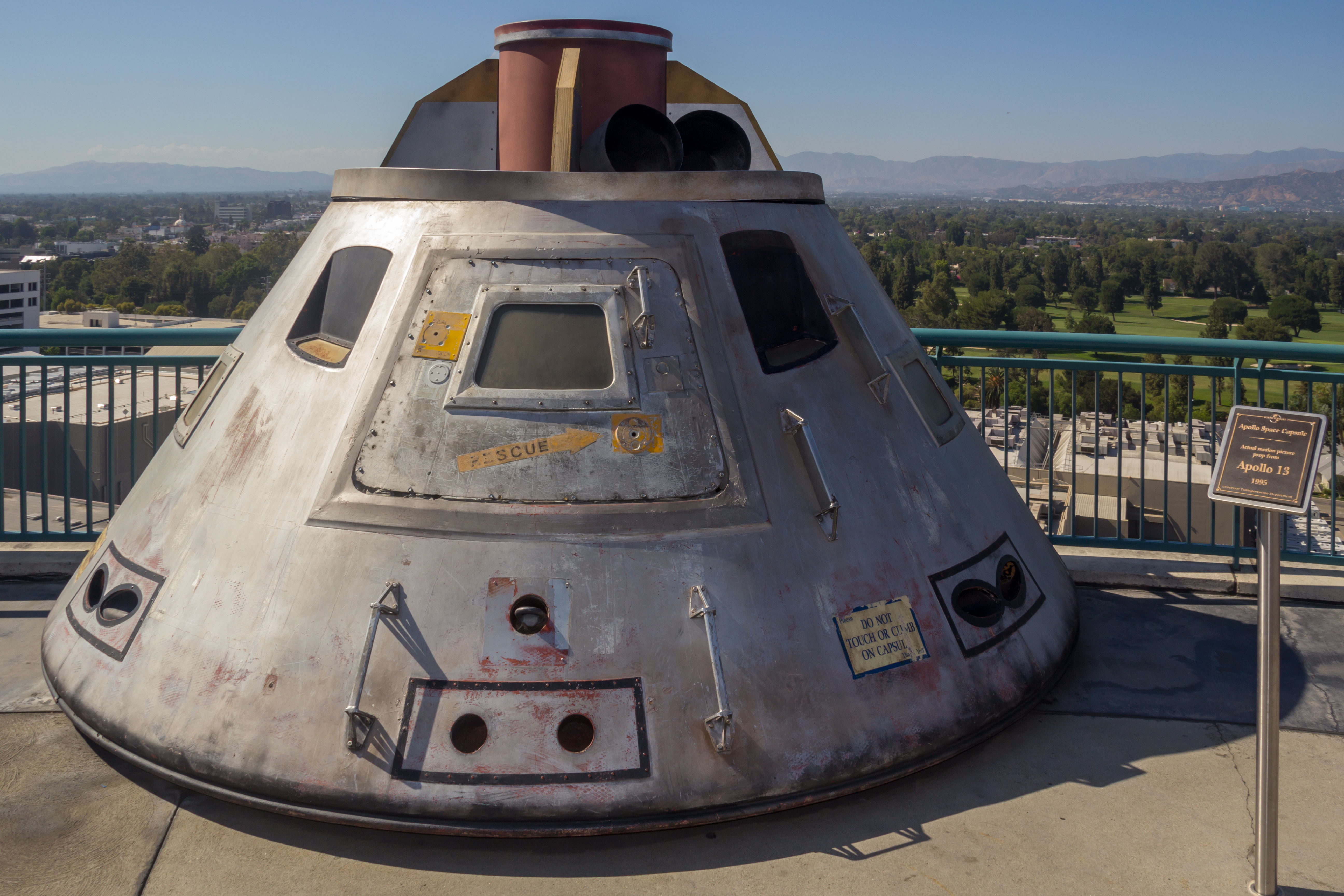 Universal Studio tour, Universal Studios, Hollywood.